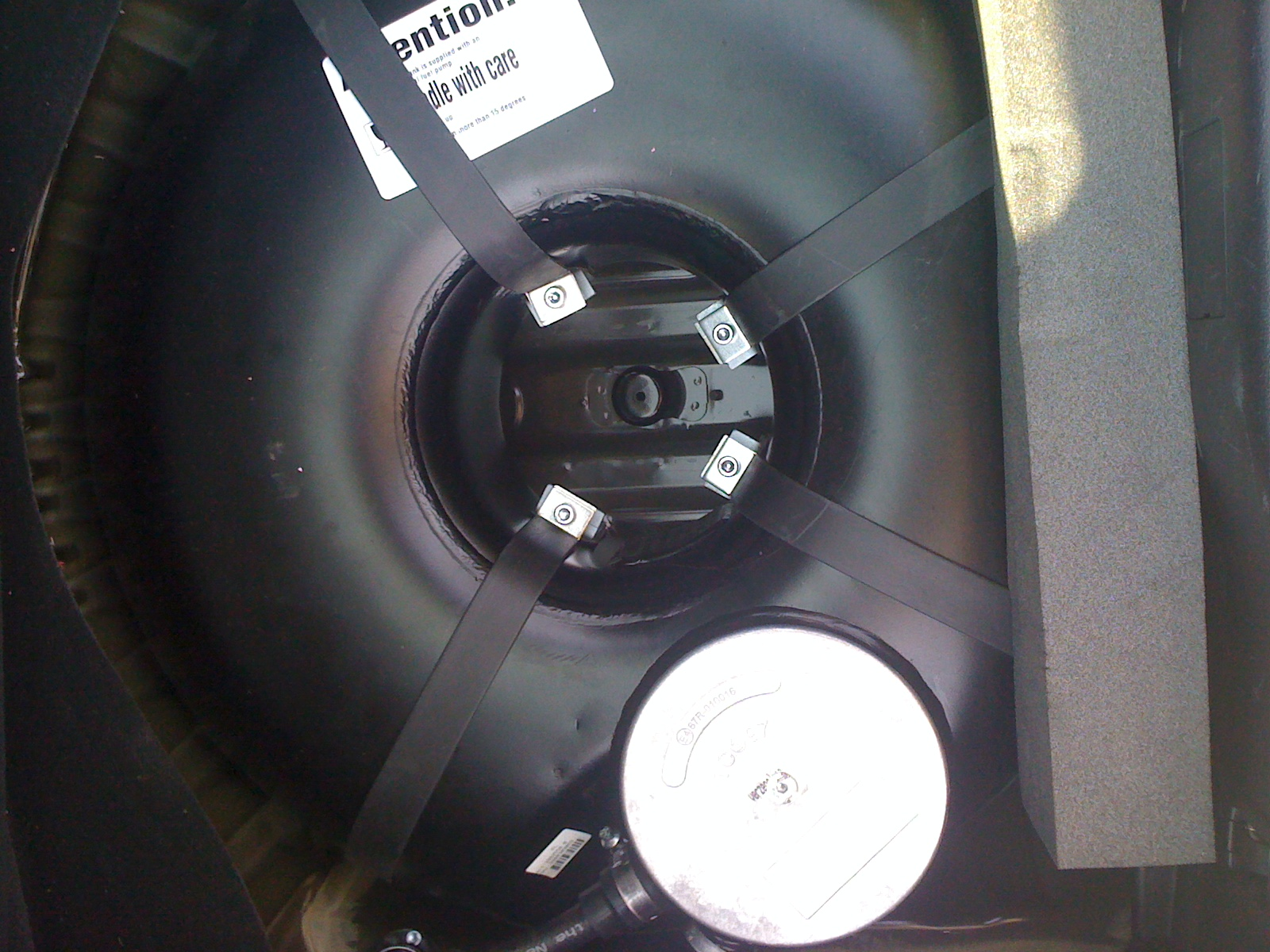 LPG Tank inside the spare tyre compartment in the trunk of a Lexus IS 300 station wagon